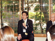 Sakae Saitō, Mayor of Atami City, addressed the Disaster Management Café in Atami at the Kiunkaku in Atami City, Shizuoka Prefecture on January 16, 2008.